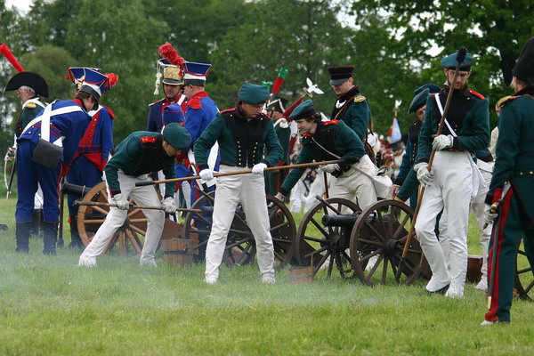 Reconstruction(2006) of Battle of Raszyn(1809)